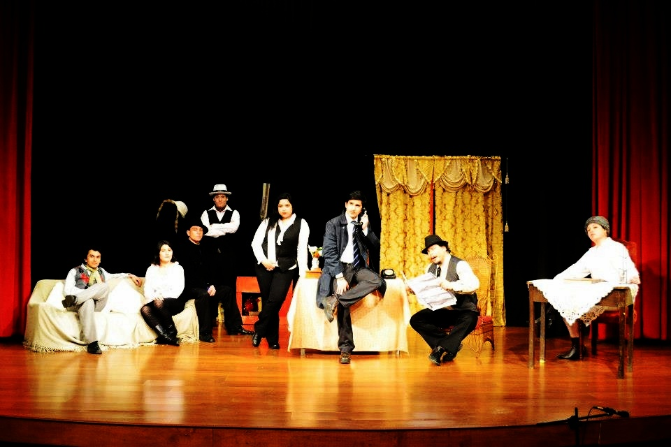 Estreno en Chile año 2012, obra teatral "La Ratonera" de Agatha Christie.